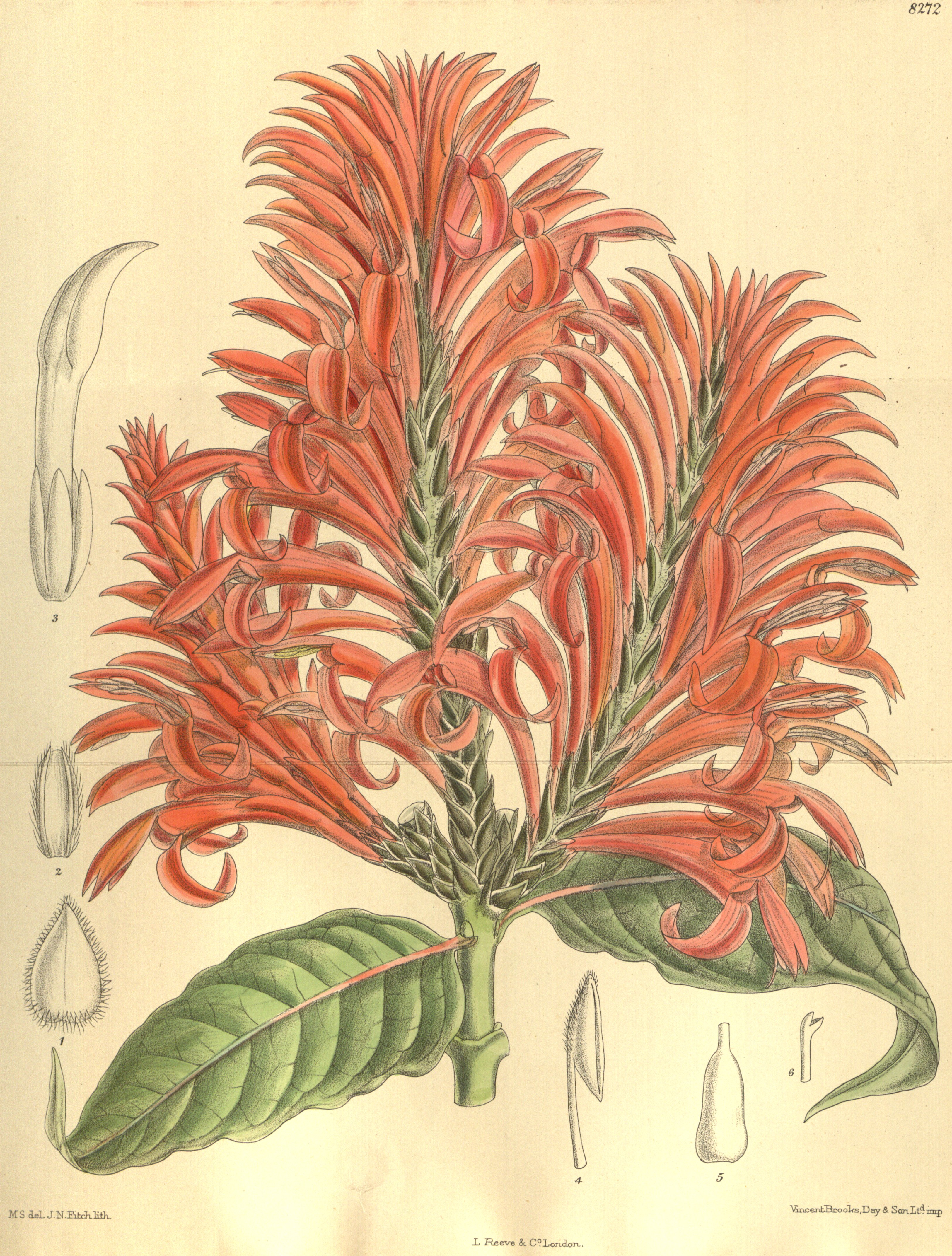 Aphelandra tetragona, Acanthaceae